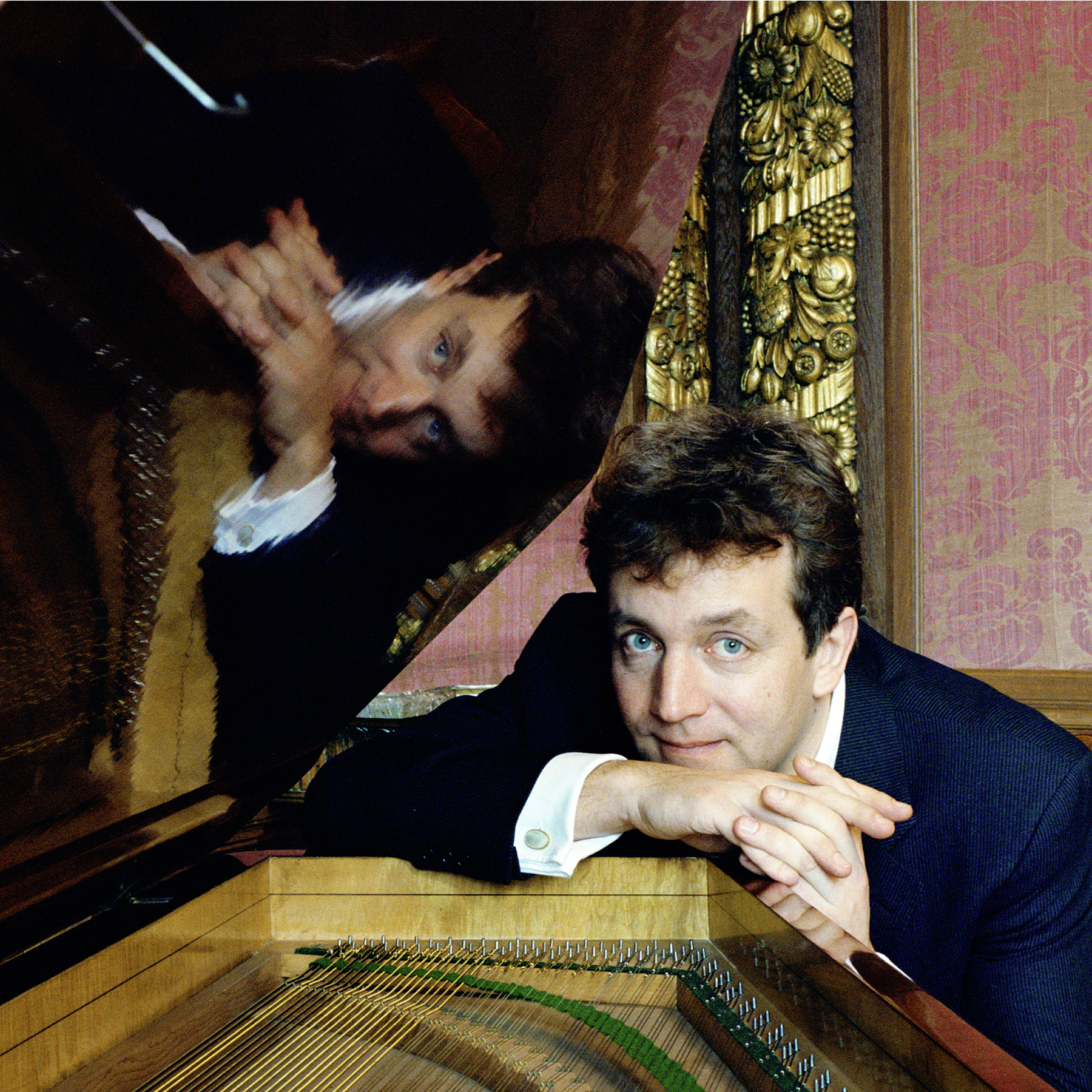 portrait of German pianist Tobias Koch